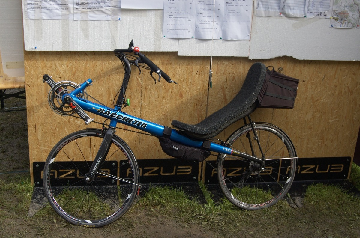 Bacchetta Carbon Aero recumbent bicycle - highracer